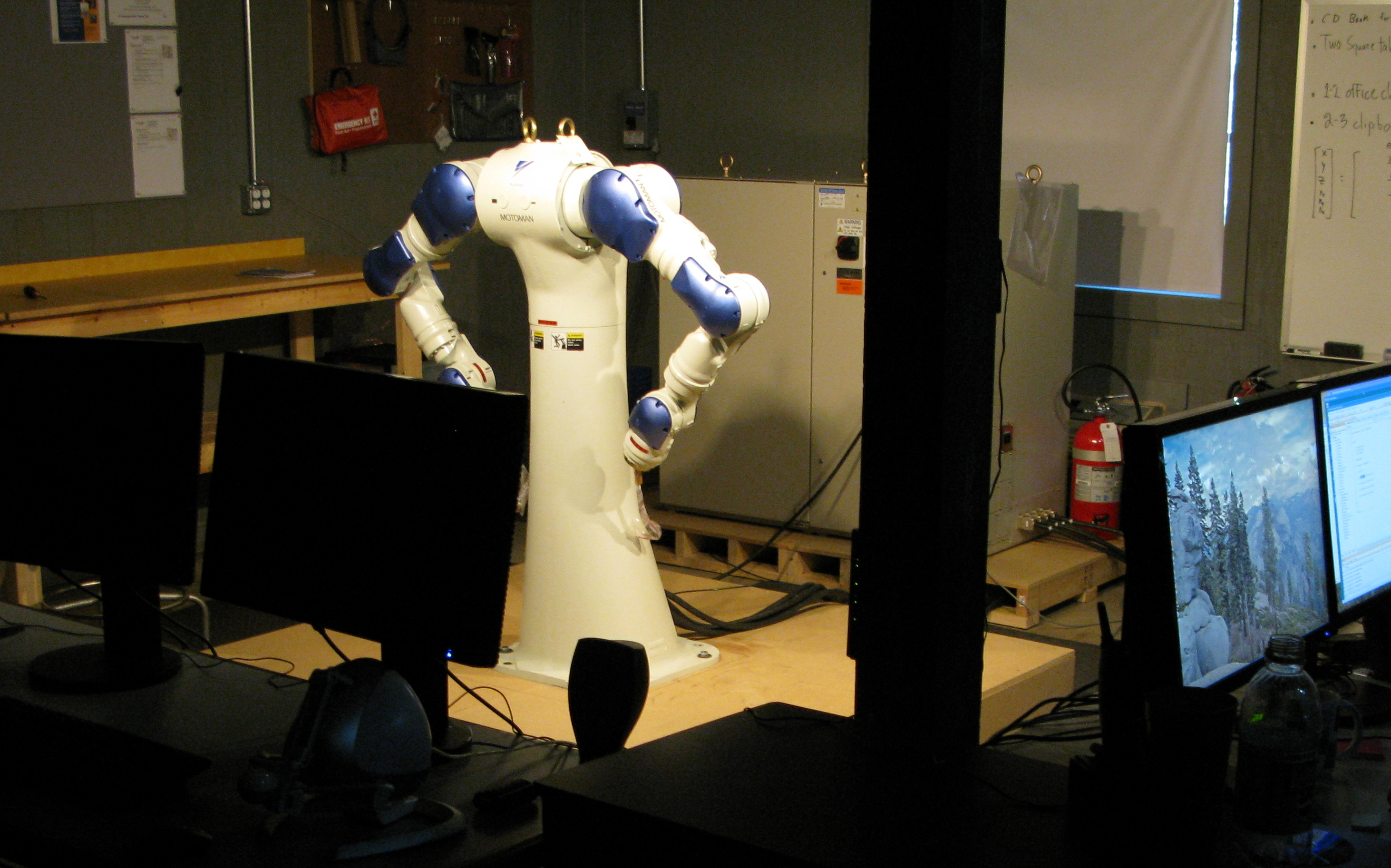 Motoman SDA10 at Smith Springs Lab